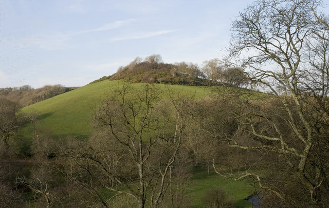 The Castle The scale of the hill is best appreciated from afar. In the foreground are the River Caen, the railway trackbed and Challowell Lane.